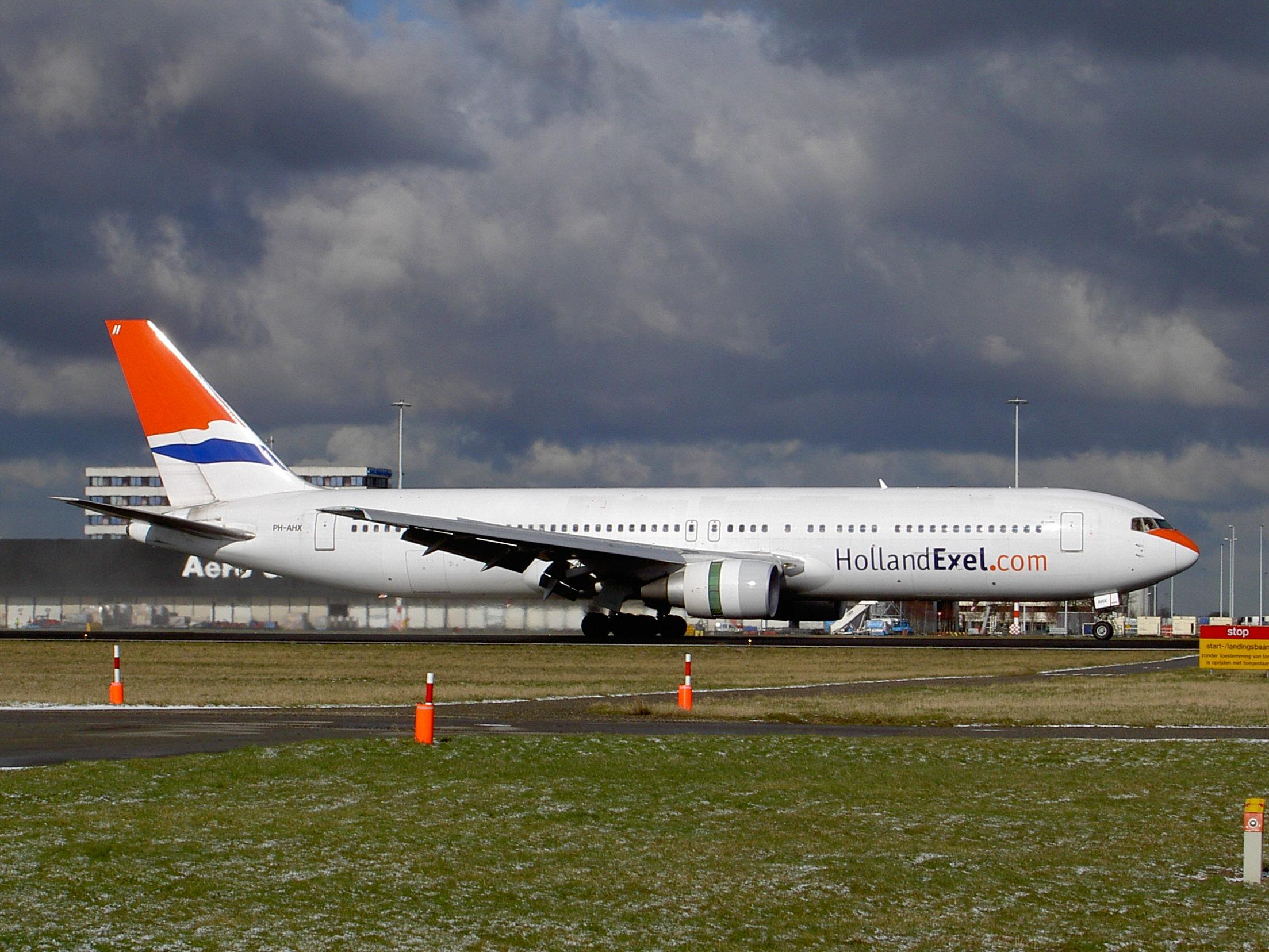 Photographed at Amsterdam Airport, (Schiphol).